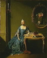 Anne Marie de Køster, wife of Michael Fabritius